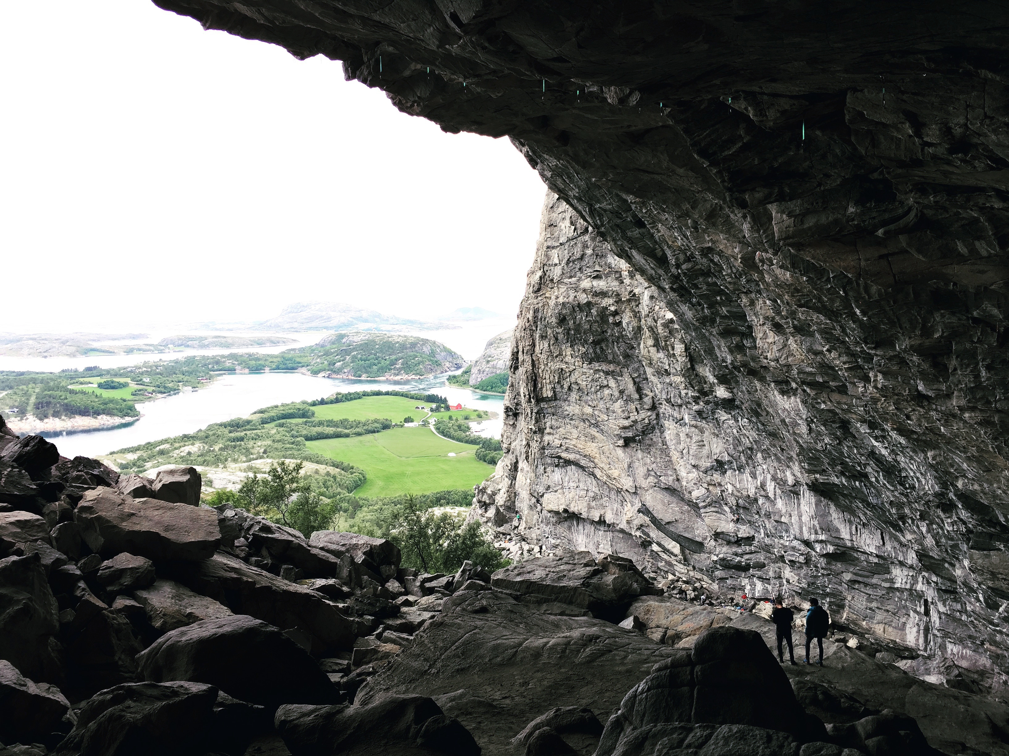 View from Hanshelleren cave toward Straumsneset in Flatanger.